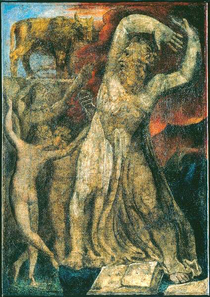 Moses Indignant at the Golden Calf, object 1 (Butlin 387)